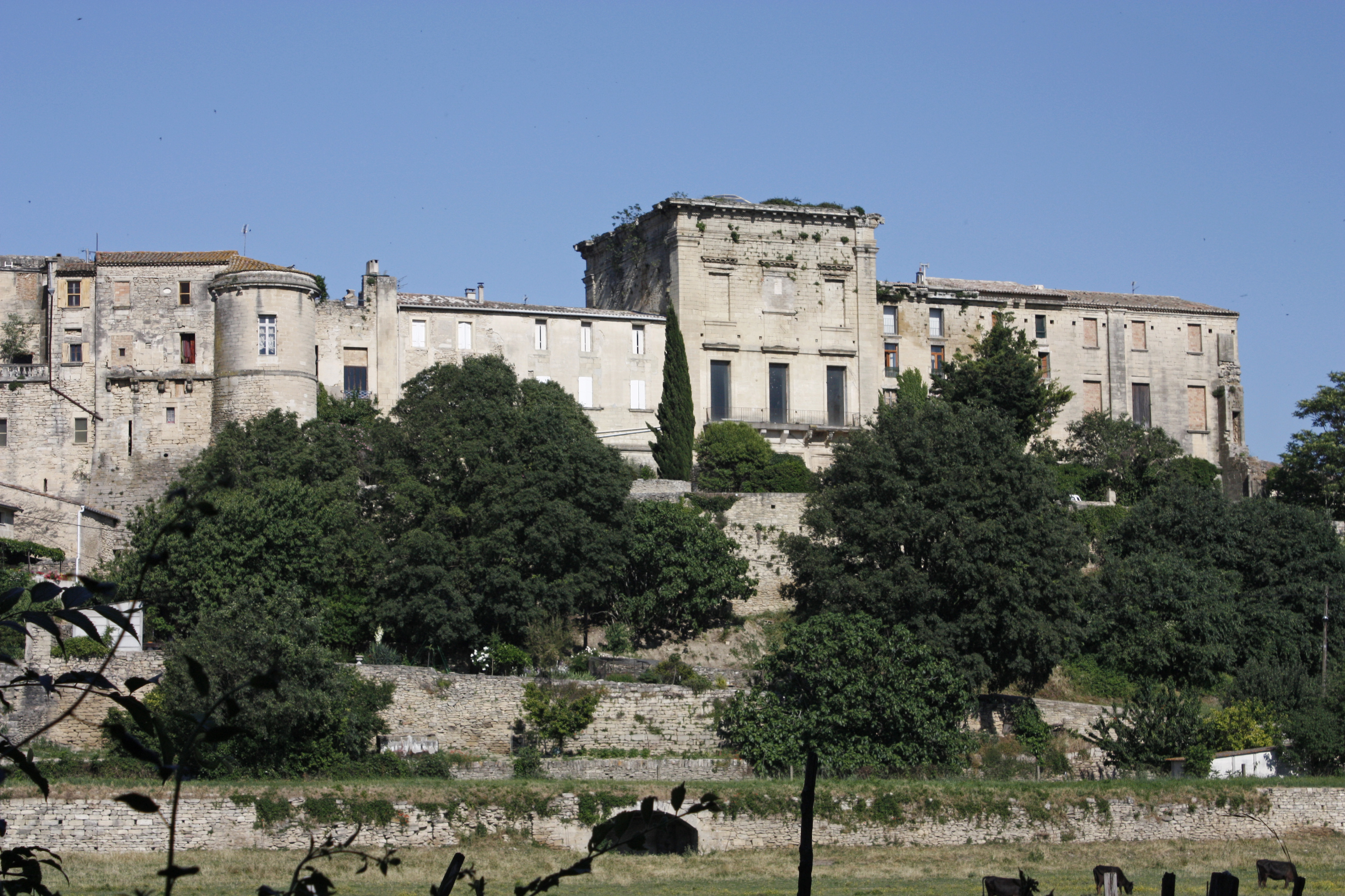 The castle of Aubais.